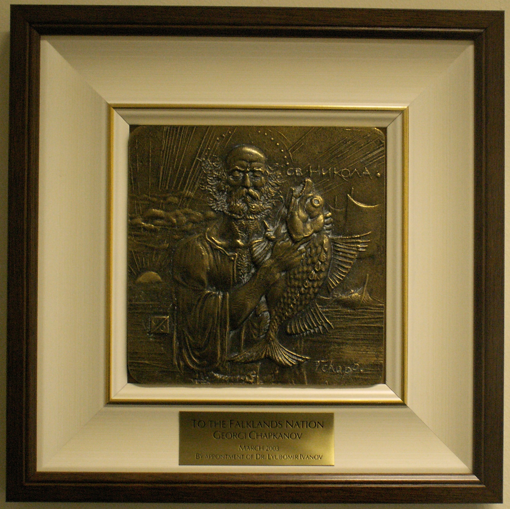 Metal icon of St. Nicholas by the Bulgarian artist Georgi 'Chapa' Chapkanov. The premises of the Falklands Legislative Council at Gilbert House in Stanley, Falkland Islands. As a patron saint of fishermen the Saint is uniquely depicted holding a fish, fishing being the mainstay of Falklands economy. The icon's inscription reads: To the Falklands Nation / Georgi Chapkanov / March 2003 / By appointment of Dr. Lyubomir Ivanov.